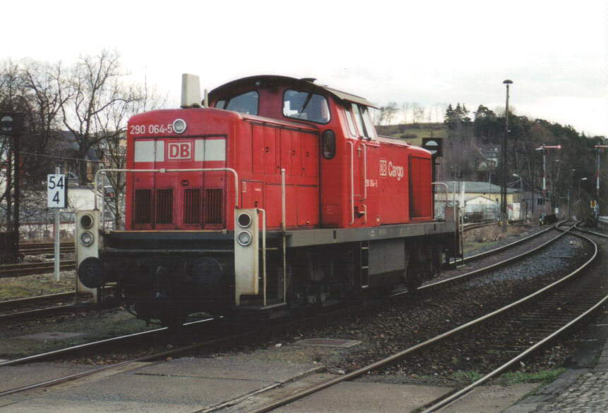 A german class 290 diesel locomotive switching at Lobenstein station.